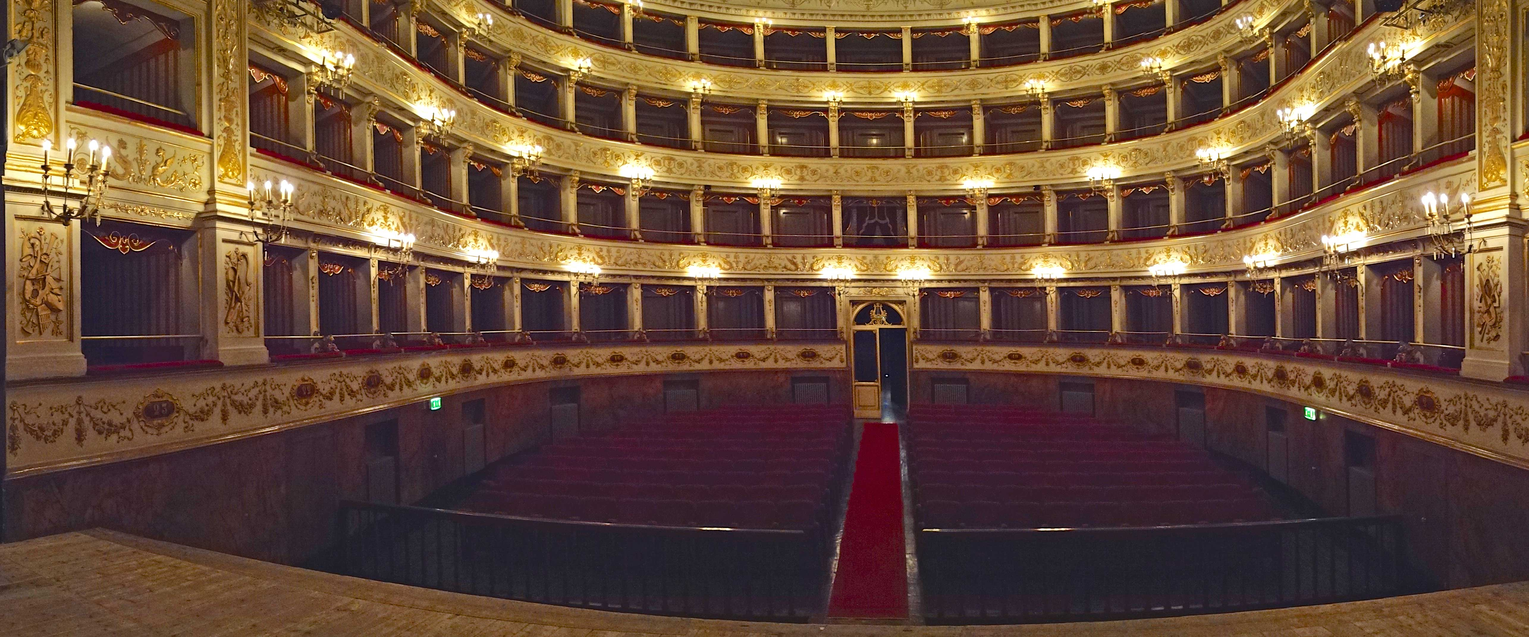 Interior of the "Gentile da Fabriano" theater